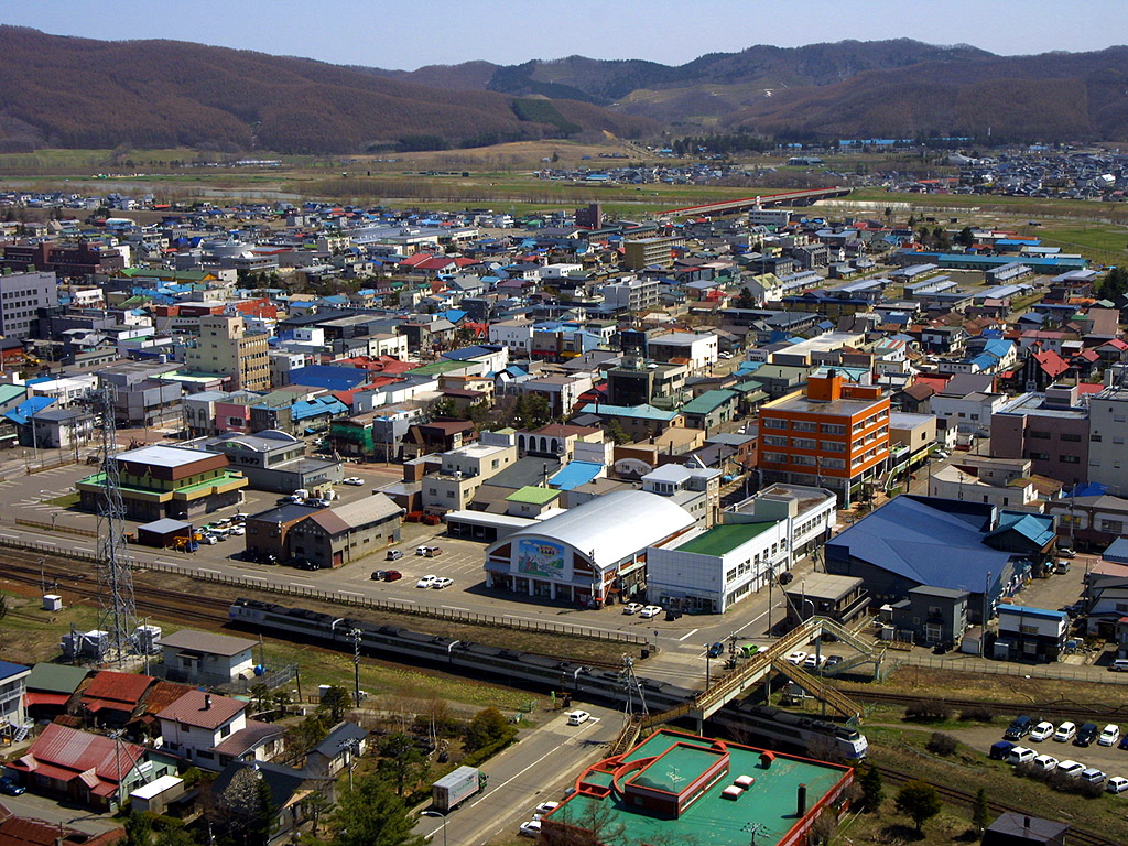 View of Engaru Town, 1 May 2004